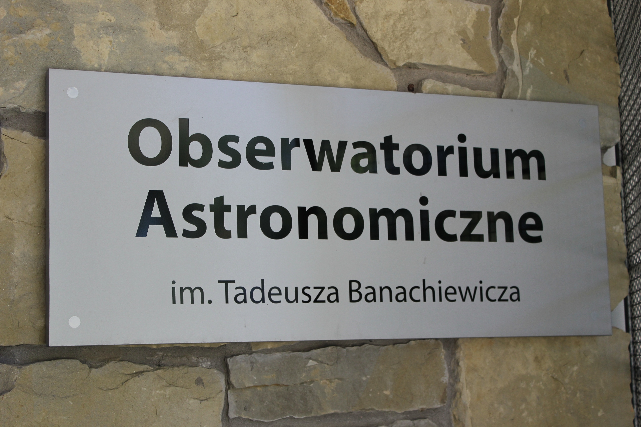 Lubomir Astronomical Observatory